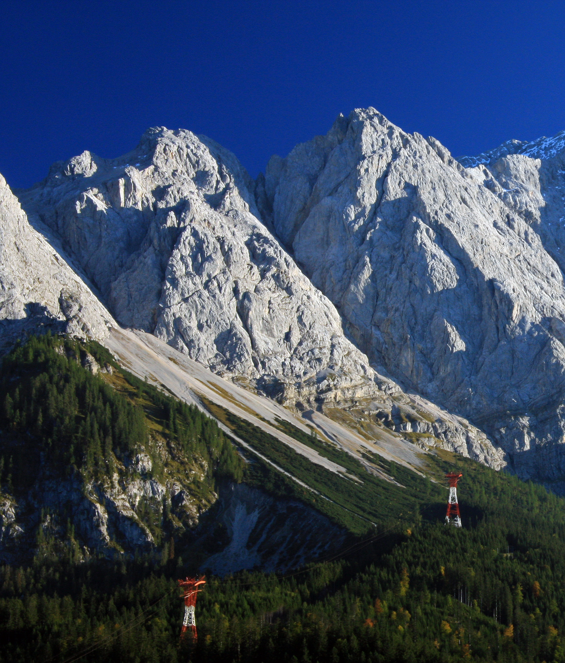 The Kleine (left) and Große (right) Riffelwandspitze in the Wetterstein mountains, Bavaria, Germany